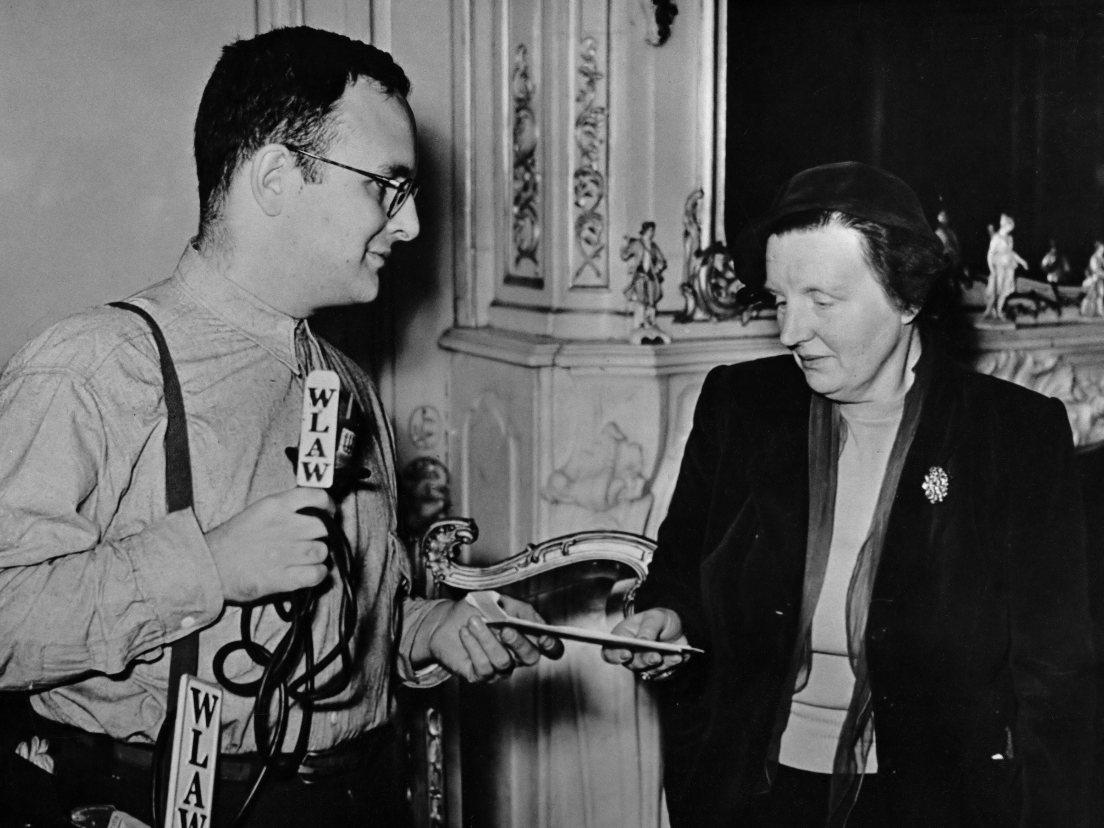 Roderick MacLeish en koningin Juliana 12 februari 1953